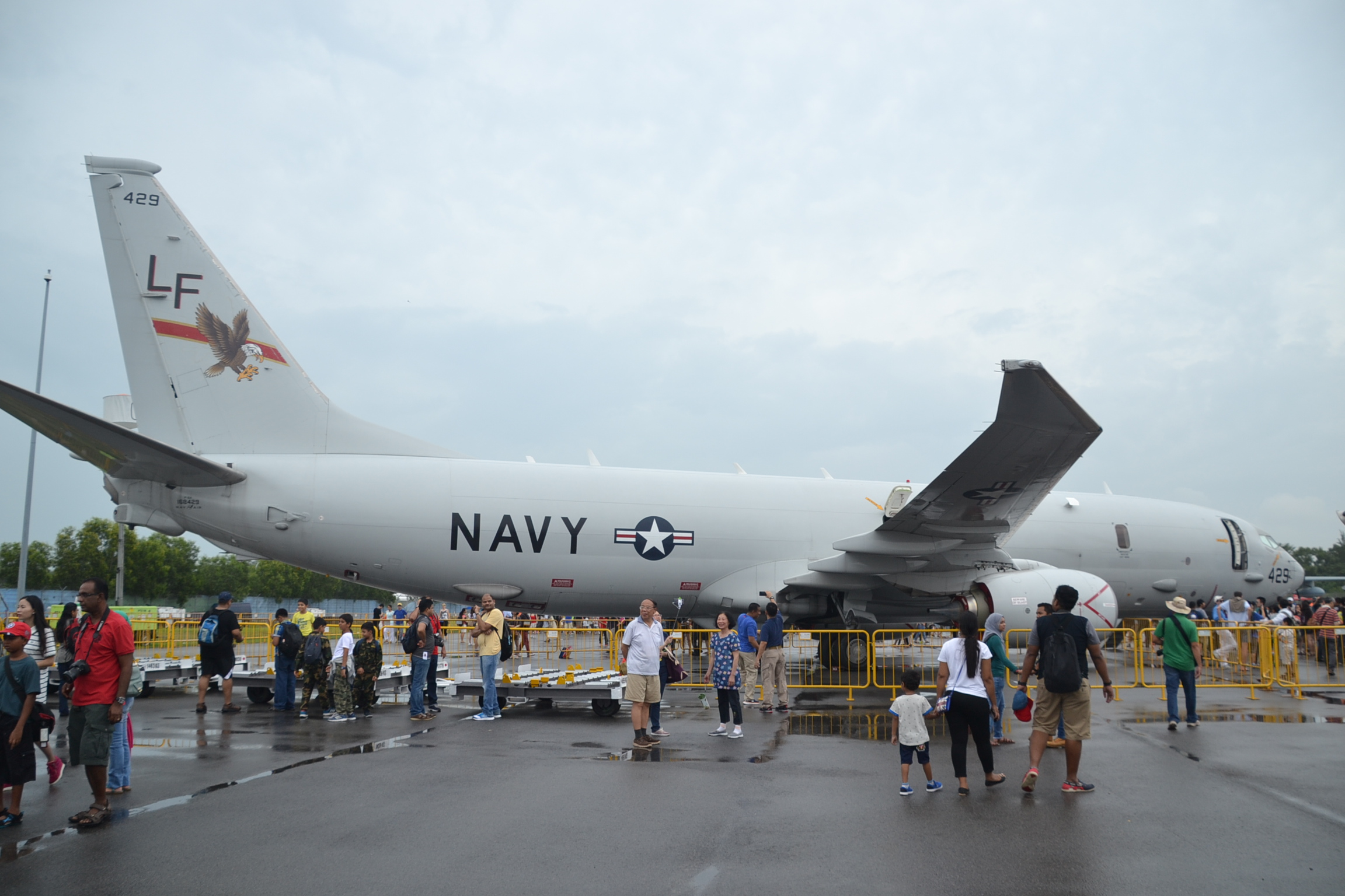 Boeing P-8A of the United States Navy at the Singapore Air Show, 20/02/16.